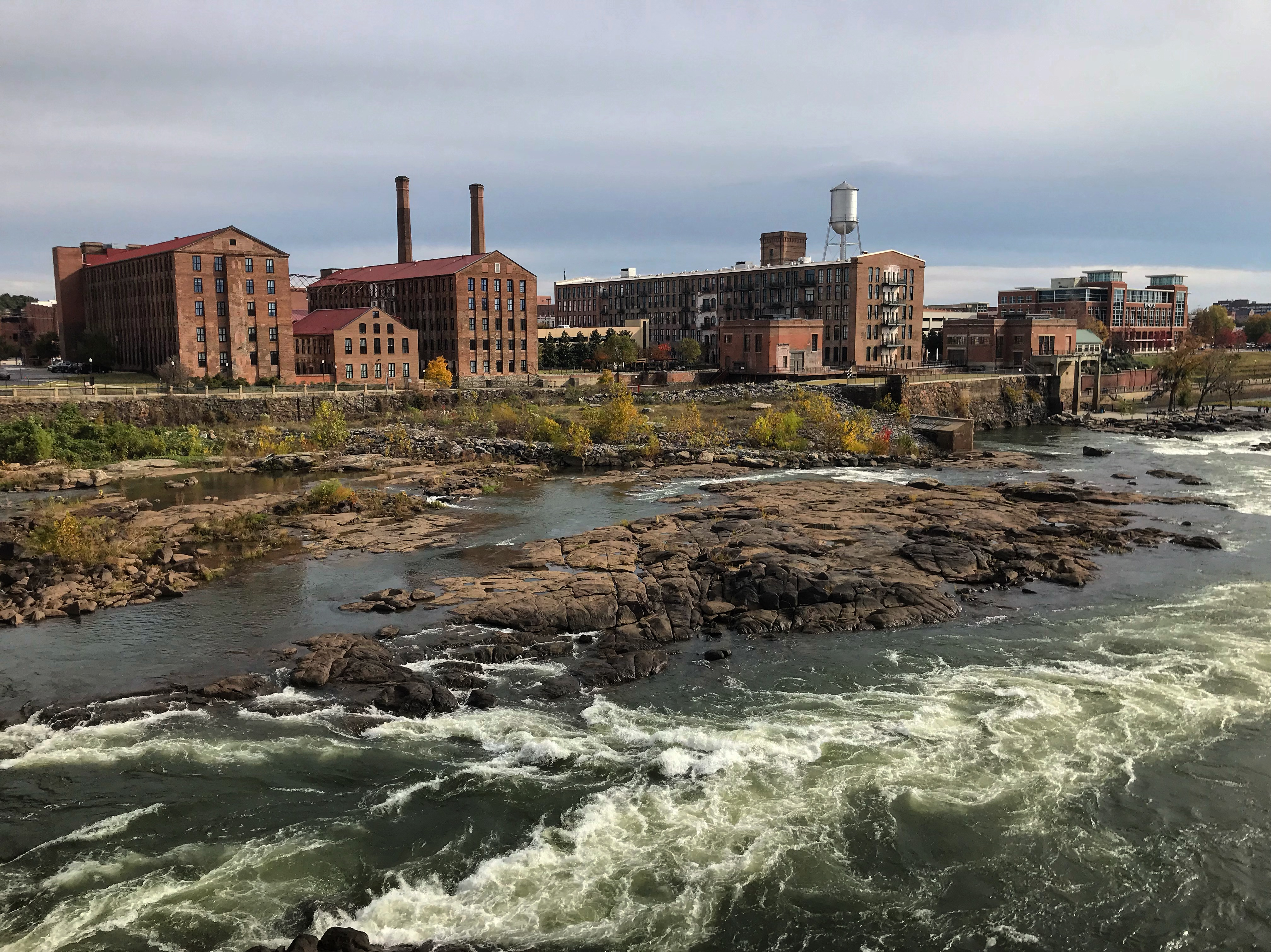 View of Downtown Columbus, Georgia from across the Chattahoochee River